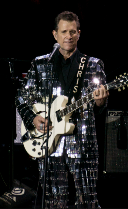 Chris Isaak, 2017